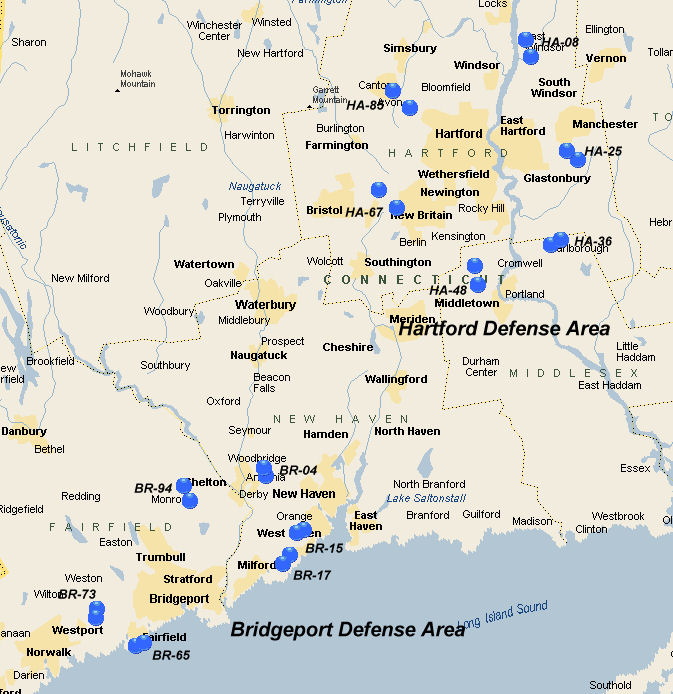 Map of Connecticut Nike missile sites